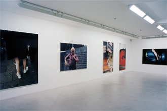 Gallery view of Henry Bond exhibition 'The Cult of the Street' at Fotomuseum Winterthur, Switzerland.